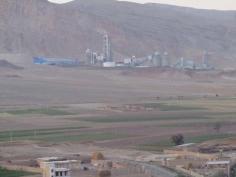 نمایی از کارخانه سیمان آذرآبادگاه خوی که در شمال غربی روستای قزقلعه قرار دارد